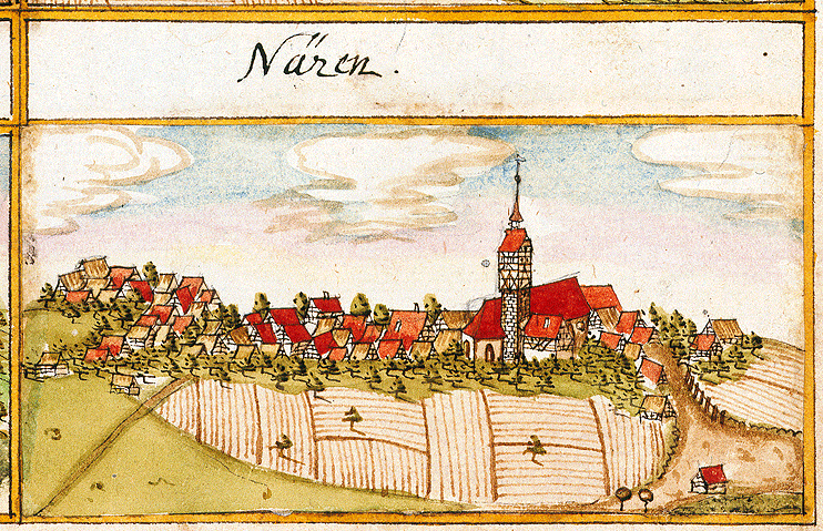 View of Nehren from the forest register books created by Andreas Kieser